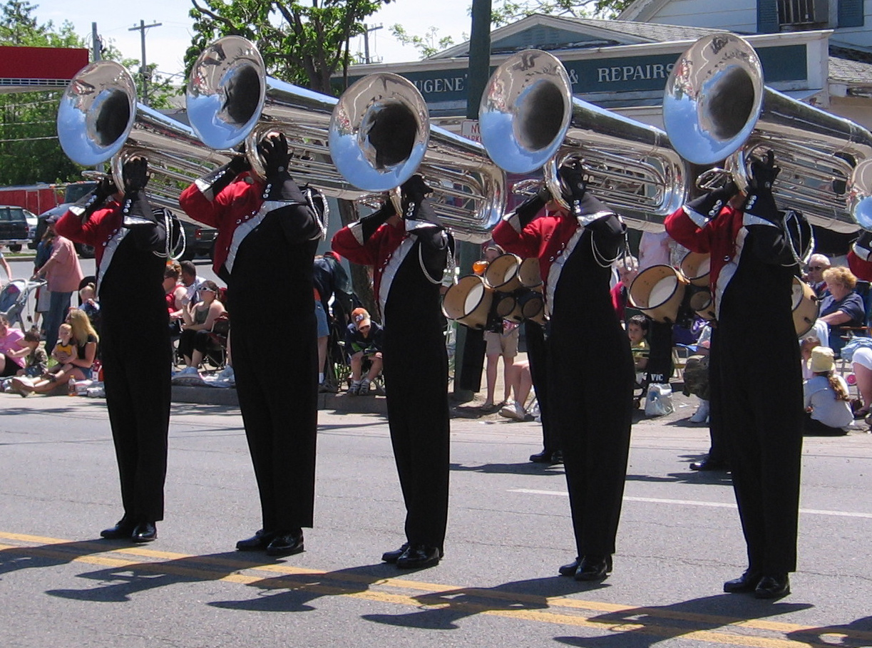 Members of the Brigadiers Drum & Bugle Corps (NY) hornline in 2007, with contrabass horns (contras).